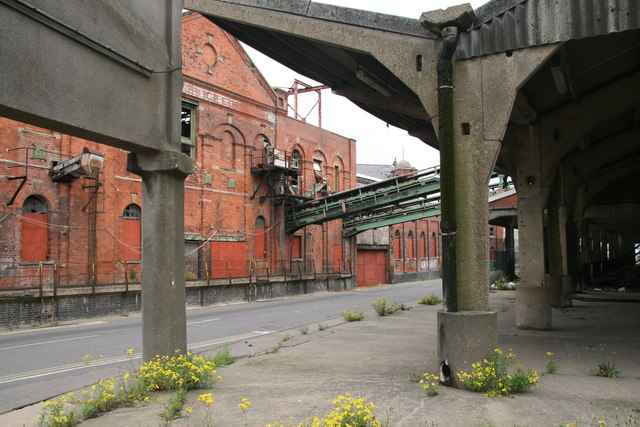 Grimsby Ice Factory The rear of the former Ice Factory and the now derelict concrete Fish Market are on Gorton Street. The ice would travel from the factory on conveyor belts over the fish market roof and down shoots into the waiting fishing vessels.